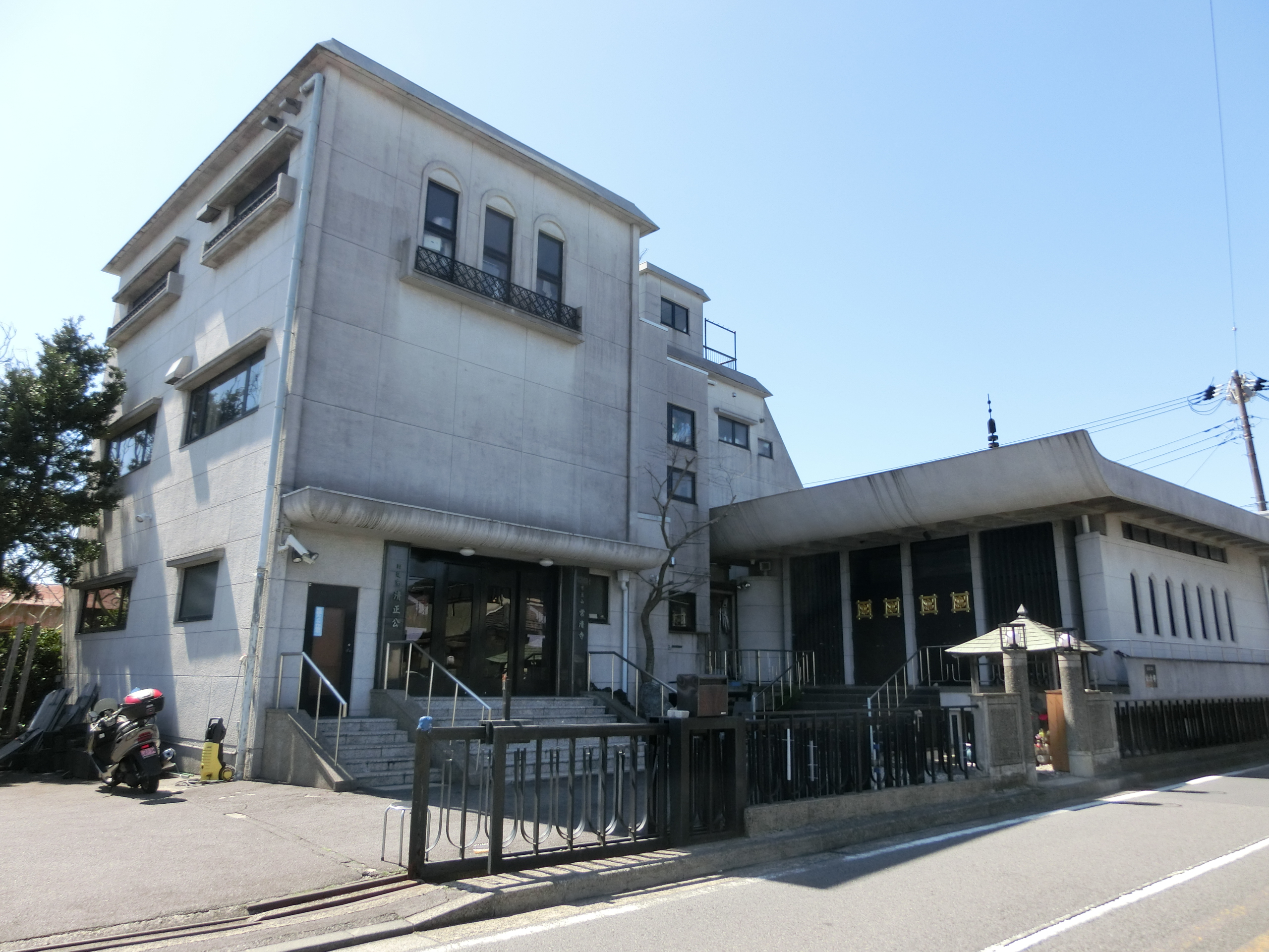 Josei-ji (Yokohama)